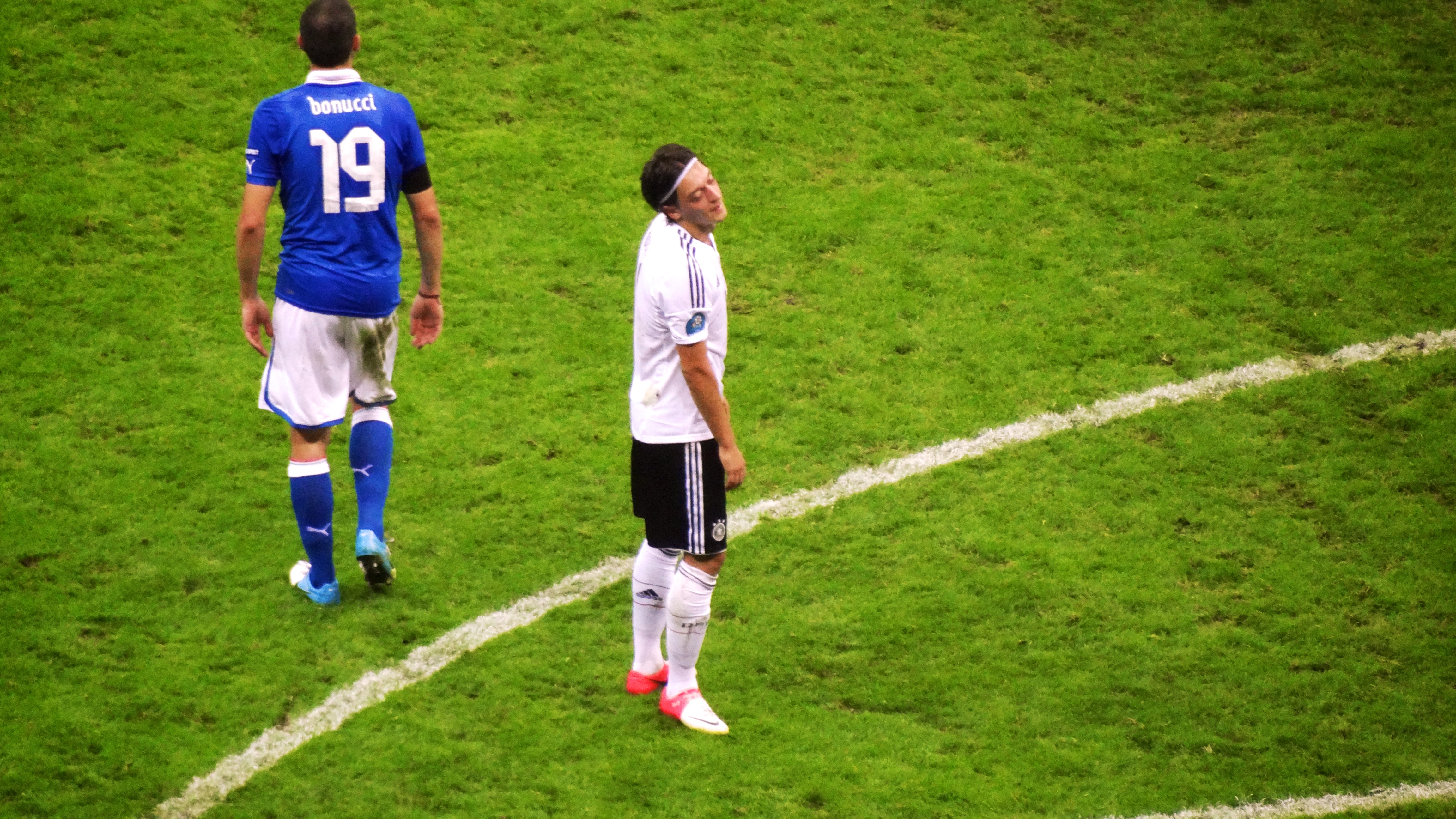 Mesut Özil during Germany - Italy, UEFA Euro 2012.